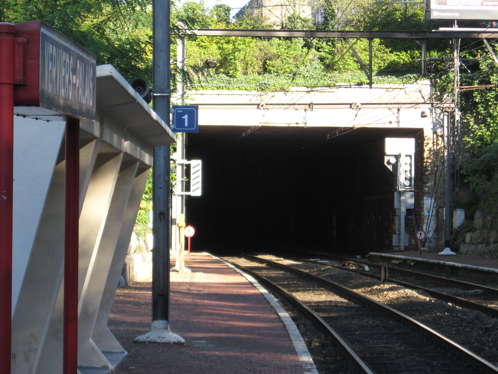 The Palais rail tunnel, western entrance, in Verviers, Liège, Belgium